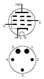 807 tube pinout Other information Love of the tubes